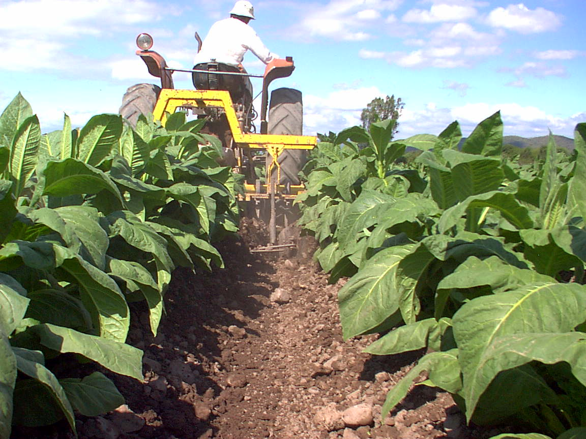 Tobacco in Salta province (Argentina)